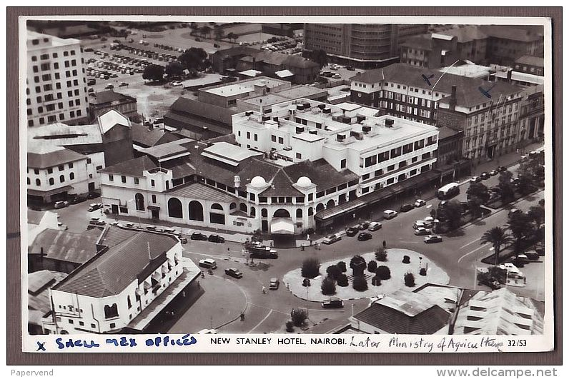 New Stanley Hotel c1950